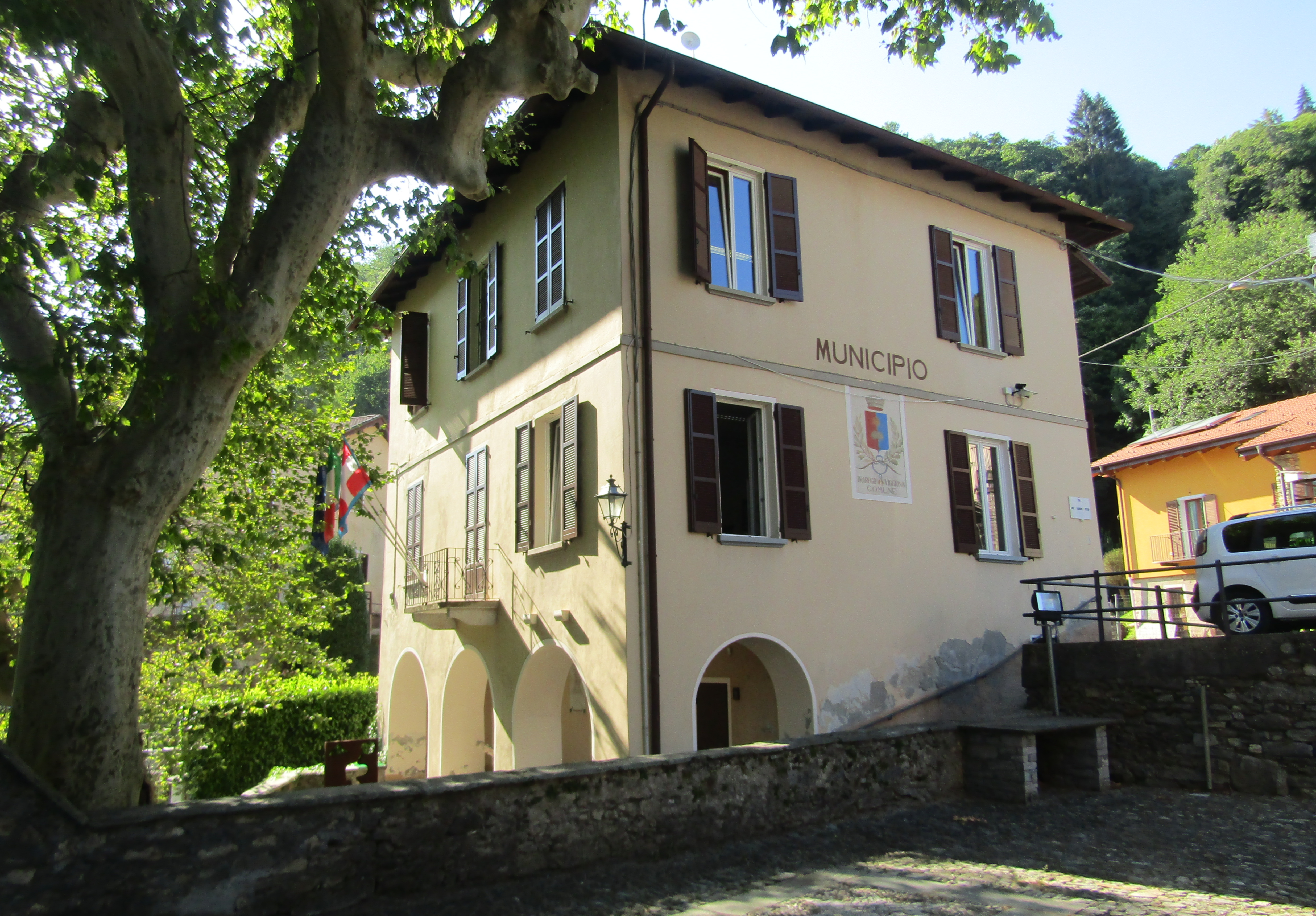 Trarego Viggiona (VB, Italy) - town hall